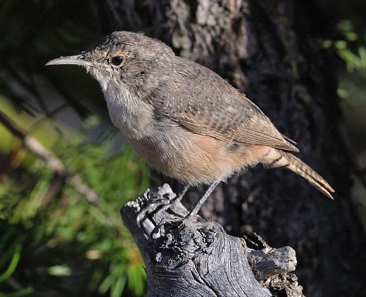 Canyon Wren Catherpes mexicanus from Grand Canyon National Park, Arizona